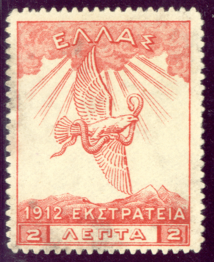 Greece: Postage stamp of 1912 Campaign issue. Issued for use in occuppied territories after the First Balkan War, used as a regular definitive stamp after 1914.